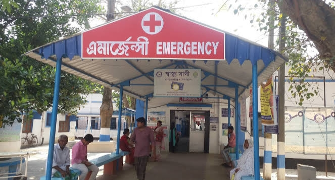 Jirat Hospital